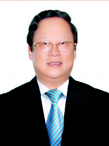 Ông Vũ Xuân Hồng